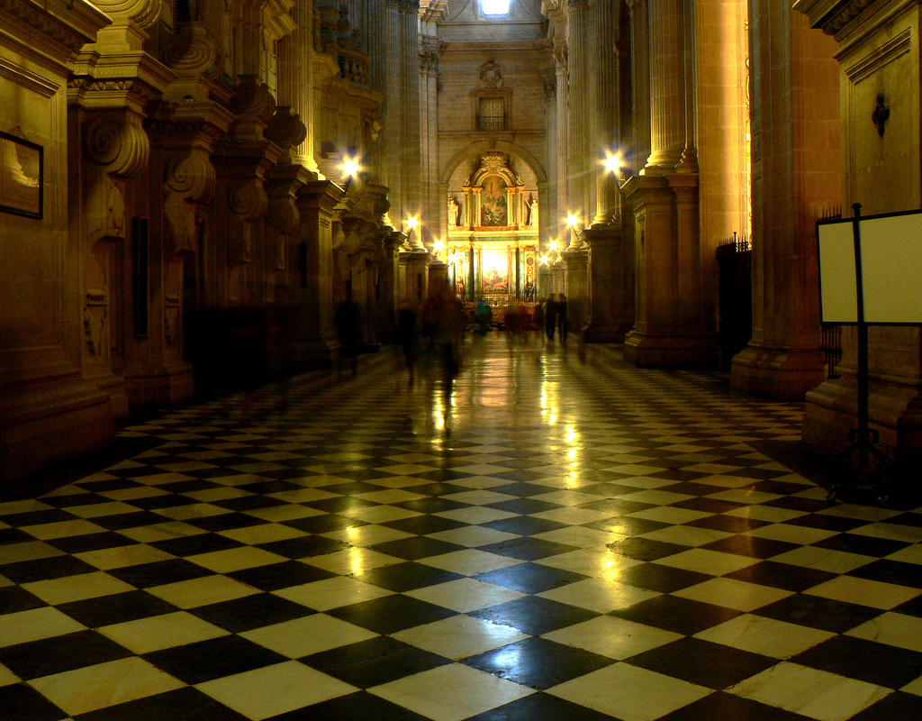 Jaén cathedral